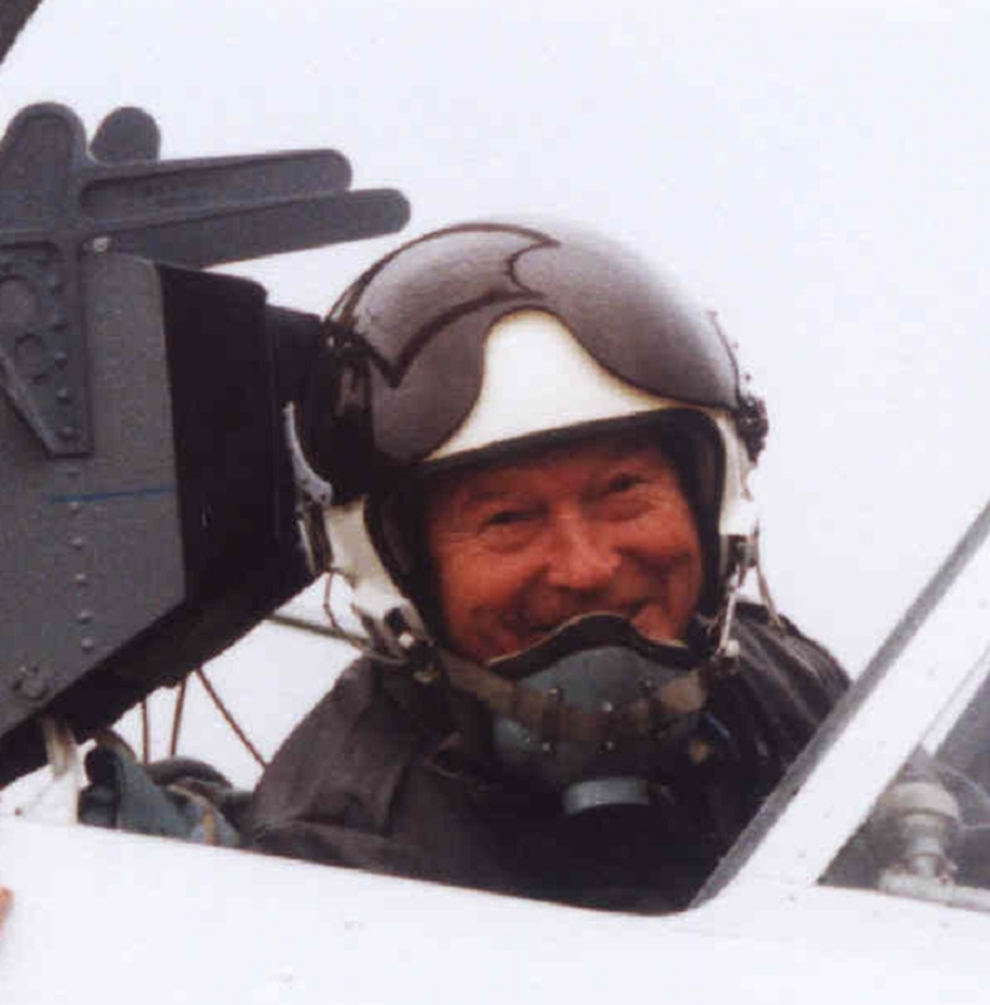 Ludwik Natkaniec (1931 – 1999) - test pilot of Institute of Aviation. The flight test of PZL I-22 Iryda M-92 aircraft, Deblin 1992.